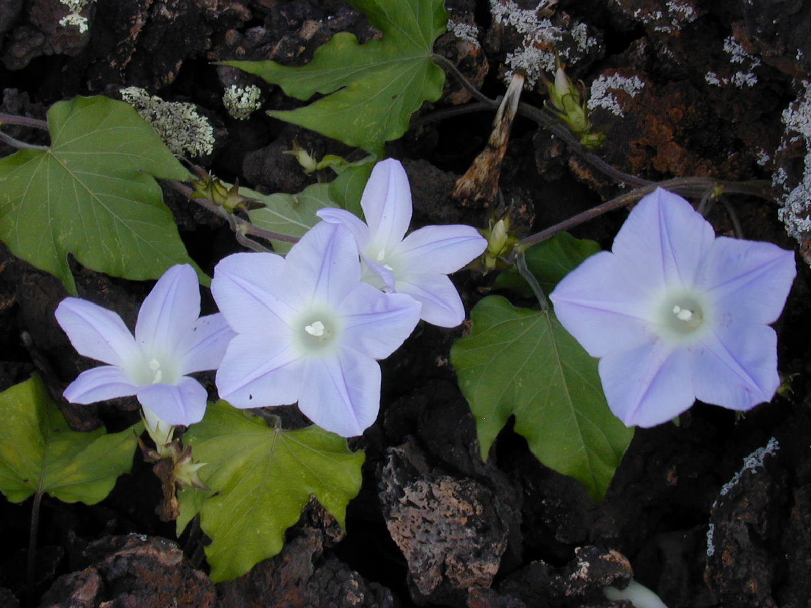 Ipomoea indica (flowers and leaves dissected). Location: Maui, Wailea 670